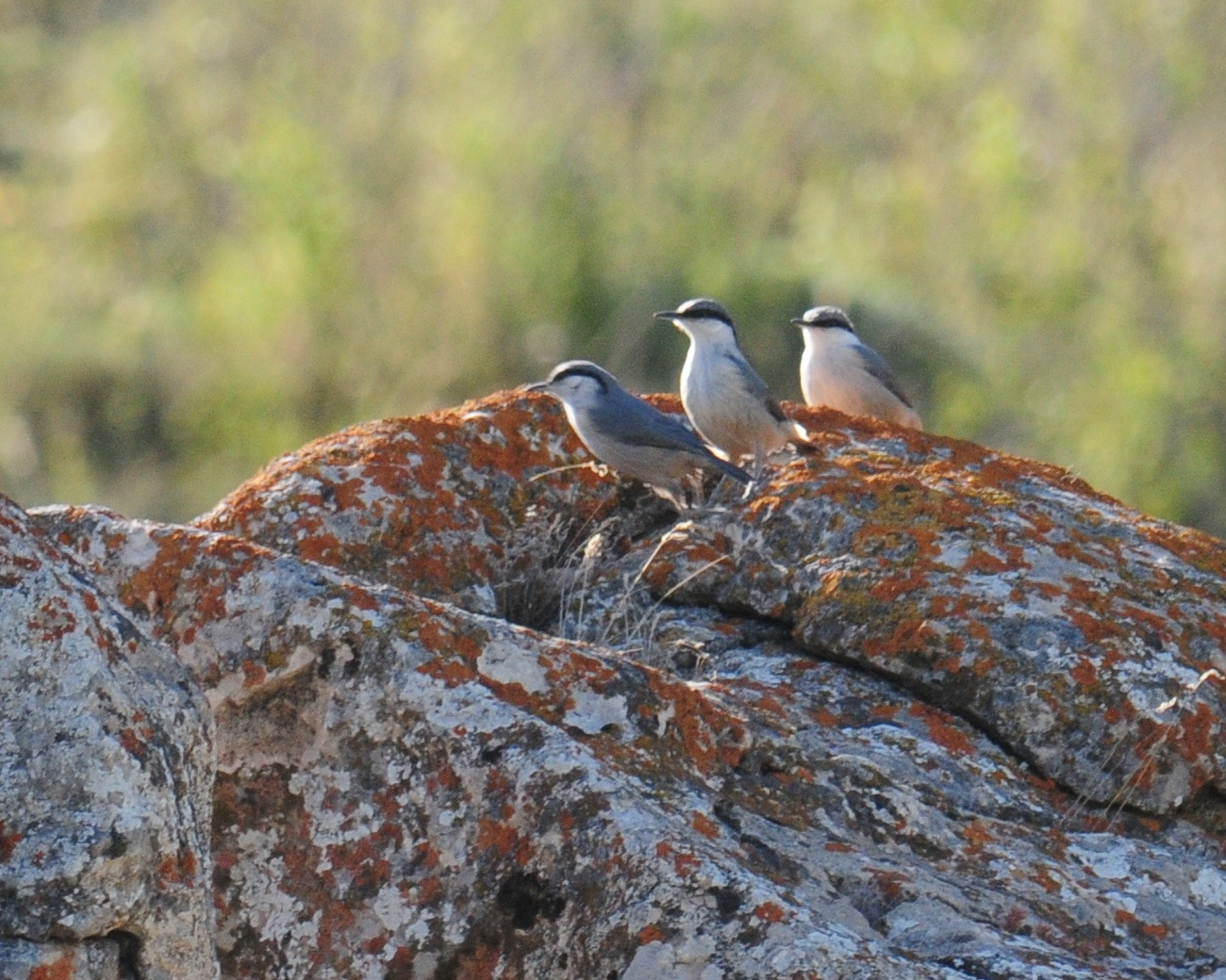 Western Rock Nuthatch Sitta neumayer, Taurus Mts., near Çamardı, Niğde, Turkey